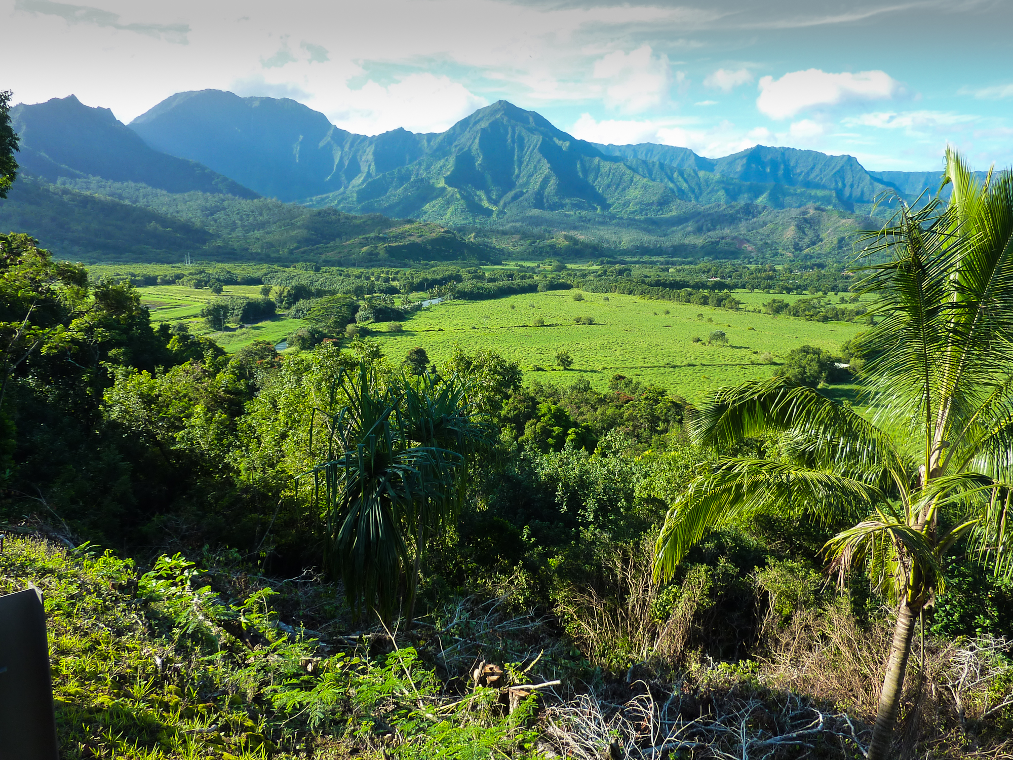 What a fun trip - Hanalai on the north shore of Kauai is such a beautiful place when it is not raining! I was there over Thanksgiving 2011 just to chill out. Most of the photos are from Hanalai Bay - a great place to relax, read, people watch, and the sunsets were incredible. This is definitely another place to go back to!